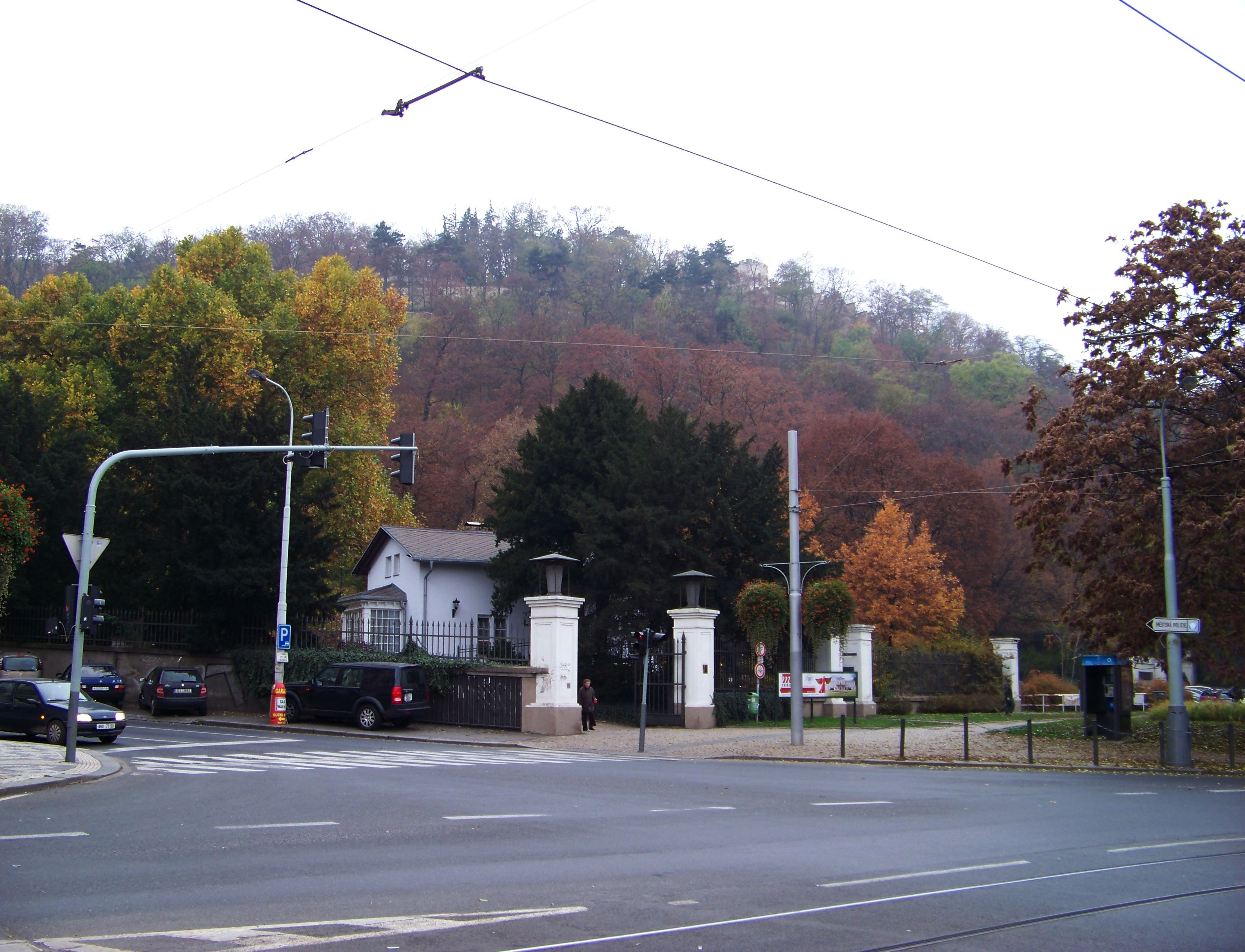 Prague-Smíchov, the Czech Republic. Kinský Family Square, Kinský Garden on the Petřín hill.